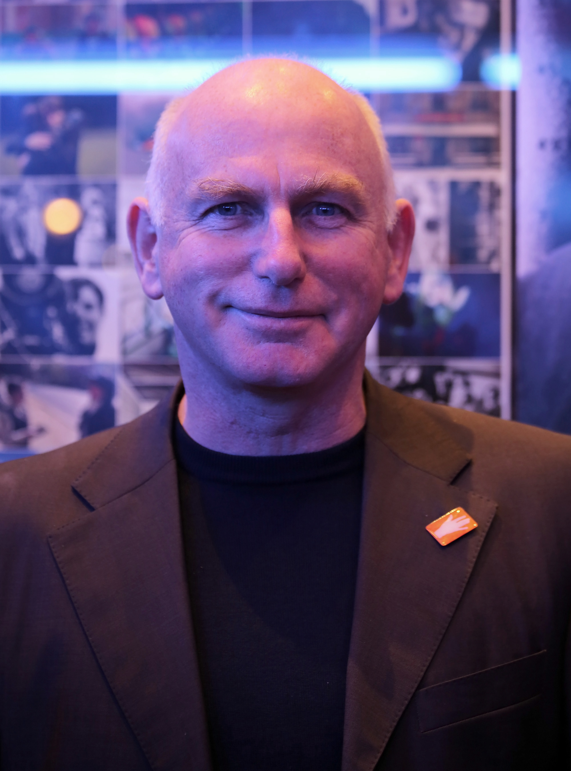 Gary Lewis at the premiere of The Strange Case of Wilhelm Reich, Vienna International Film Festival 2012, Gartenbaukino.